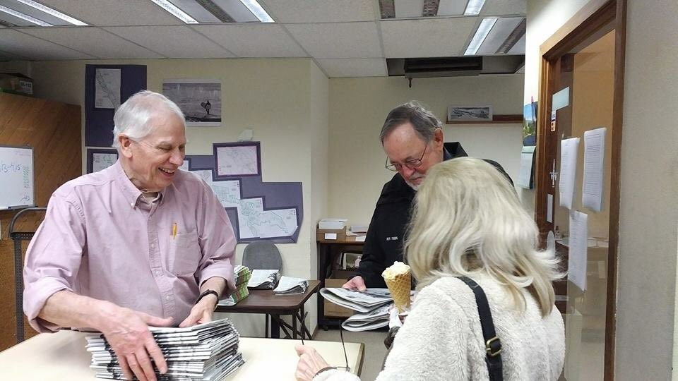 Thad Poulson greeted me with a "hot off the press" copy of the Sitka Sentinel, a family run operation for 47 years.